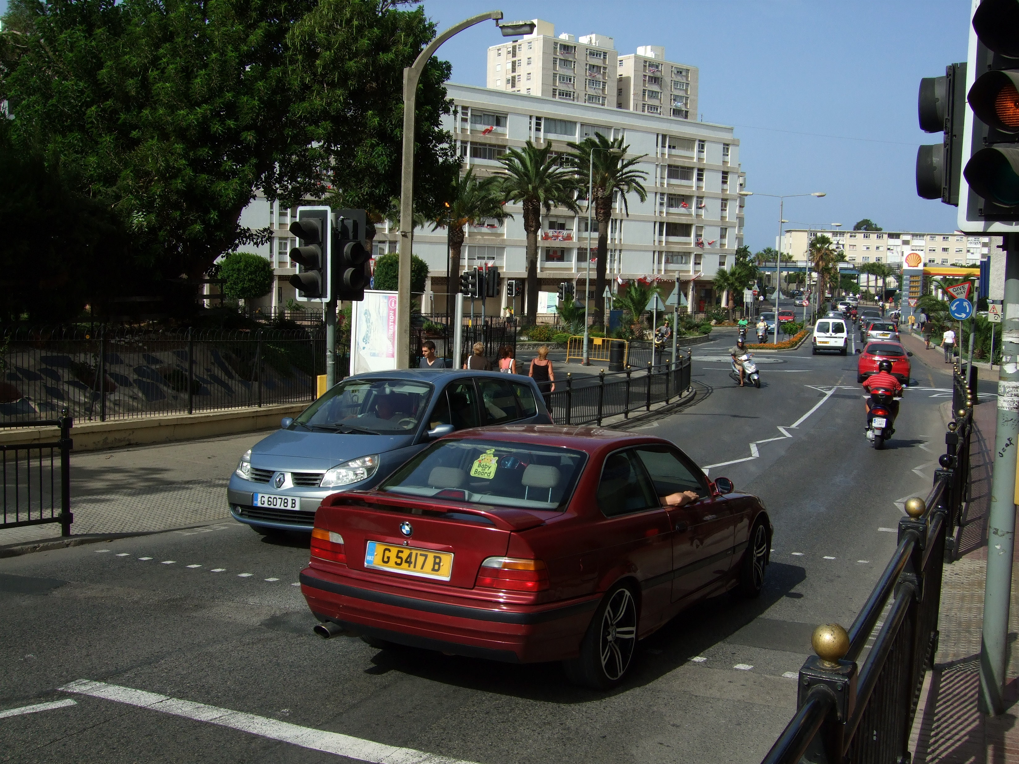 Gibraltar is very busy and because it's so small there's a lot of traffic on the roads. I never had the chance to go to pre-1997 Hong Kong but I imagine that Gibraltar is a bit like that.